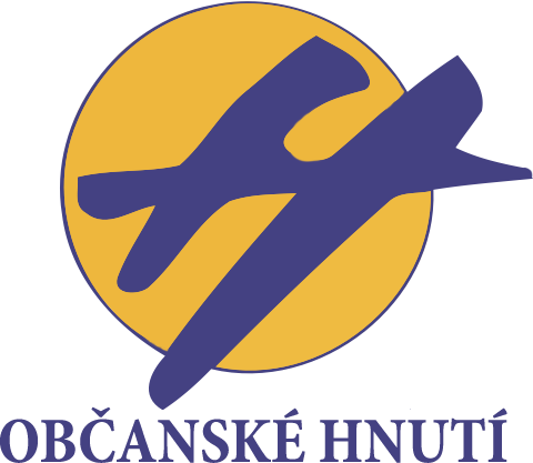 Logo of Občanské hnutí, political movement in Czechoslovakia and Czech Republic.